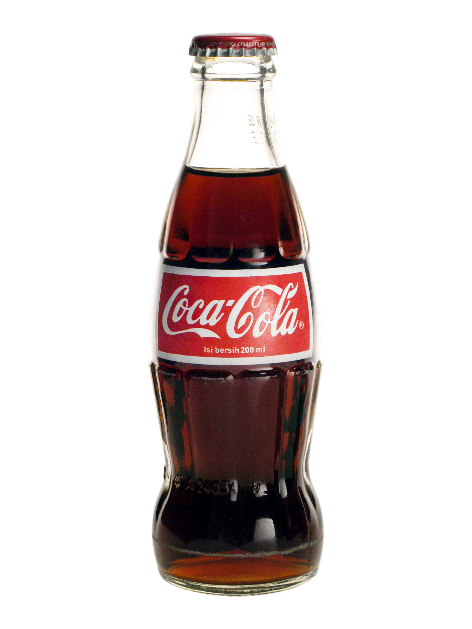 Coca Cola (bottle) sold in Indonesia.